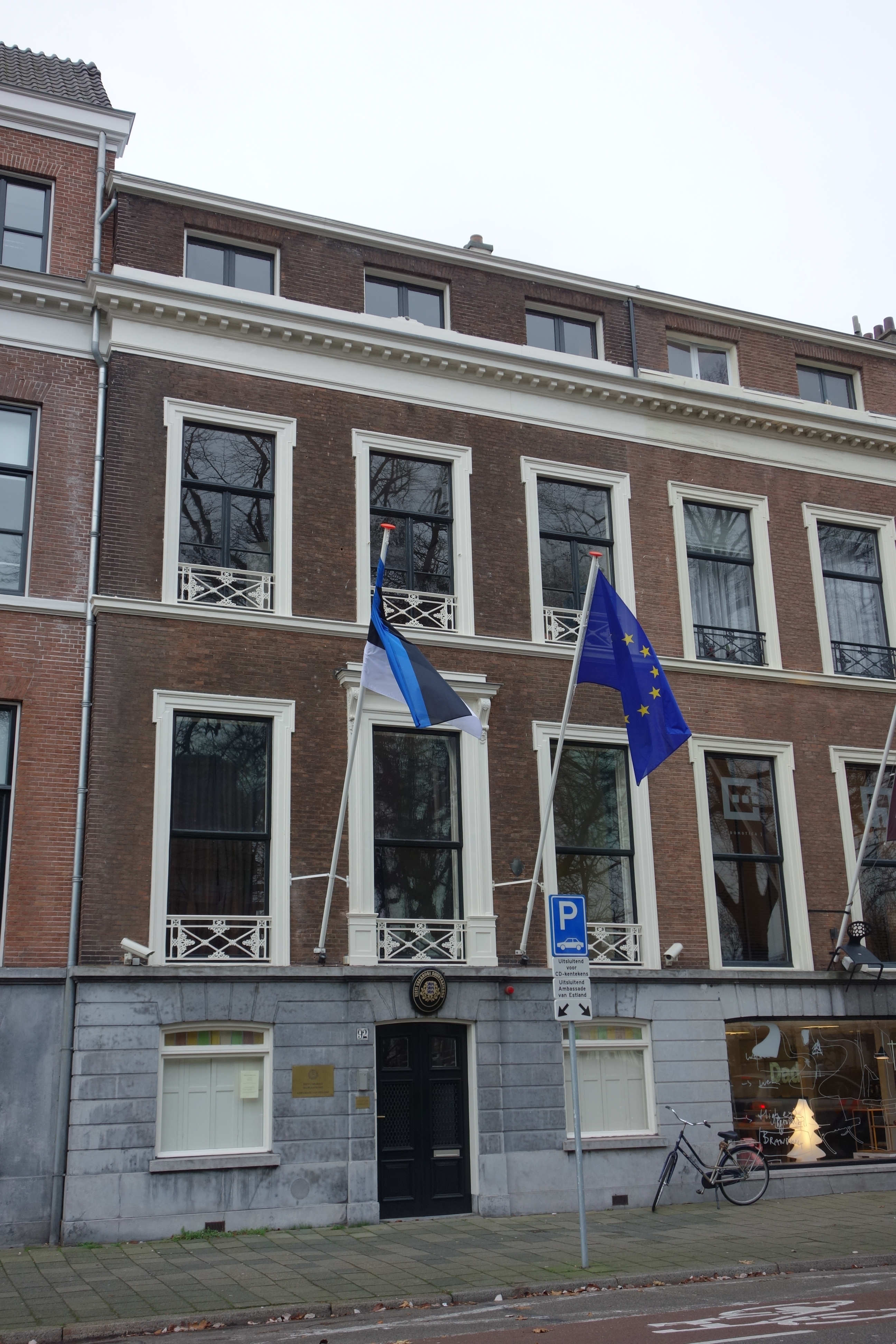 Embassie of Estonia in The Hague